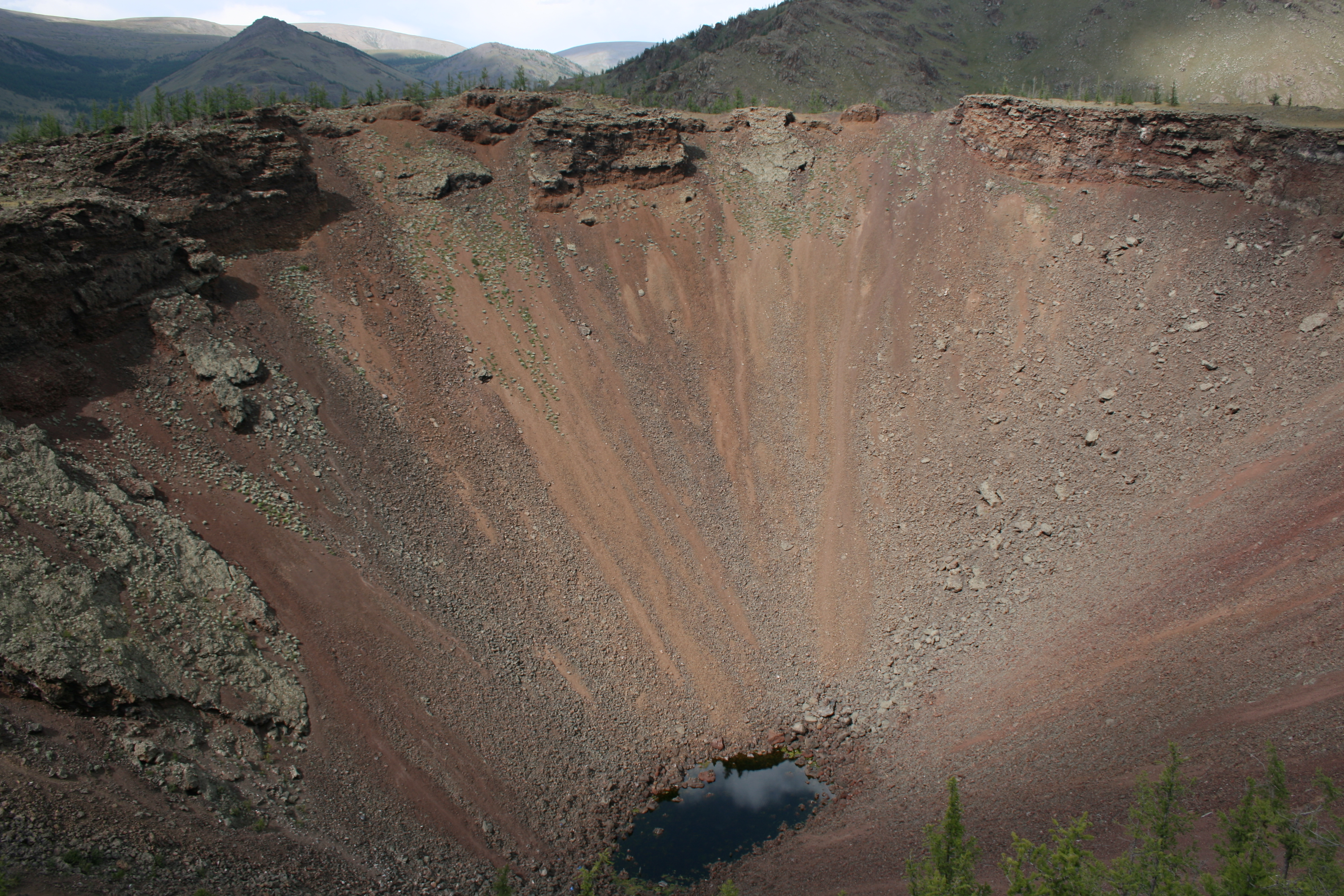 A view into the Horgo crater, near Terhiin Tsagaan nuur, Arhangai, Mongolia